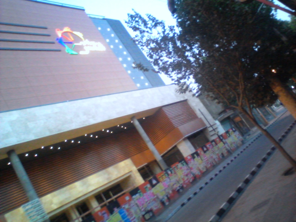 shams mall into the khoy city